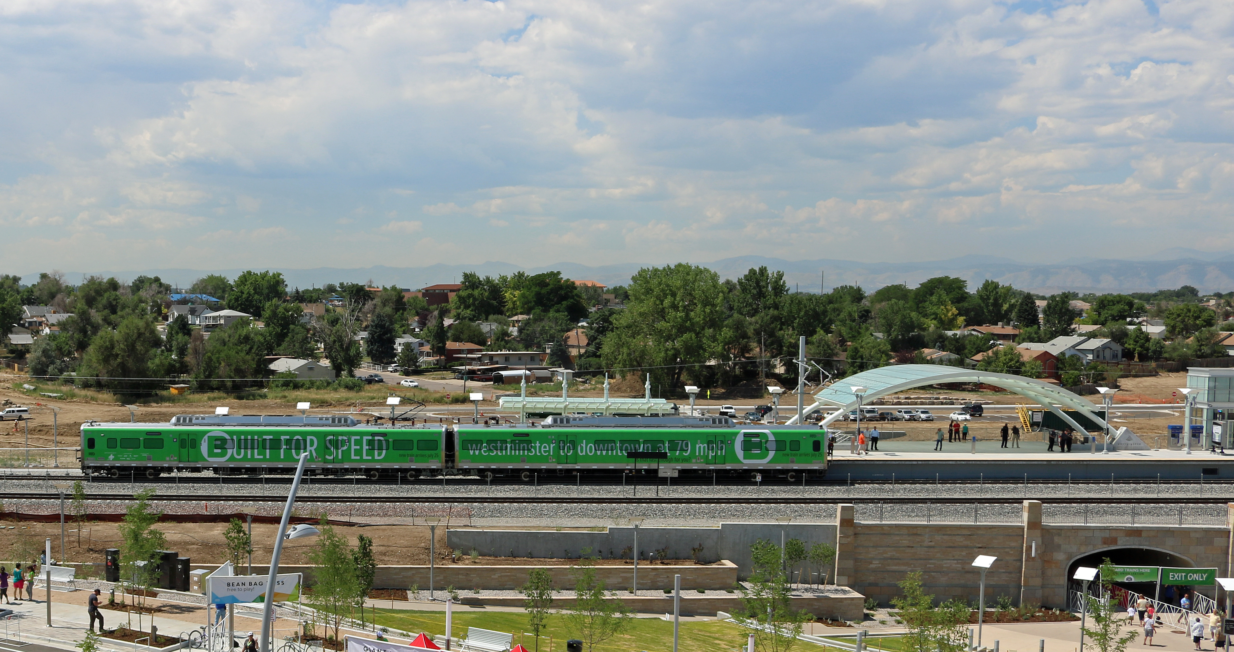 The RTD B-Line Westminster Station, located at 3200 Westminster Station Drive in Westminster, Colorado.